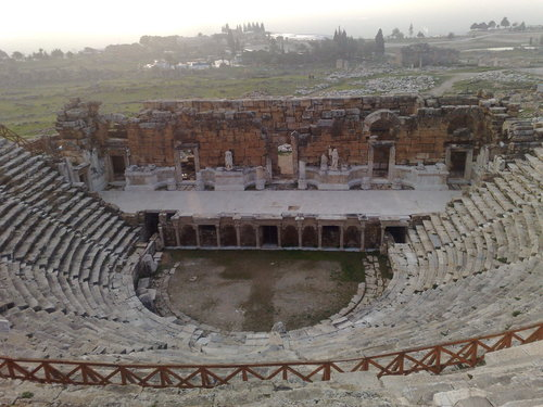 Hierapolis Amphitheater